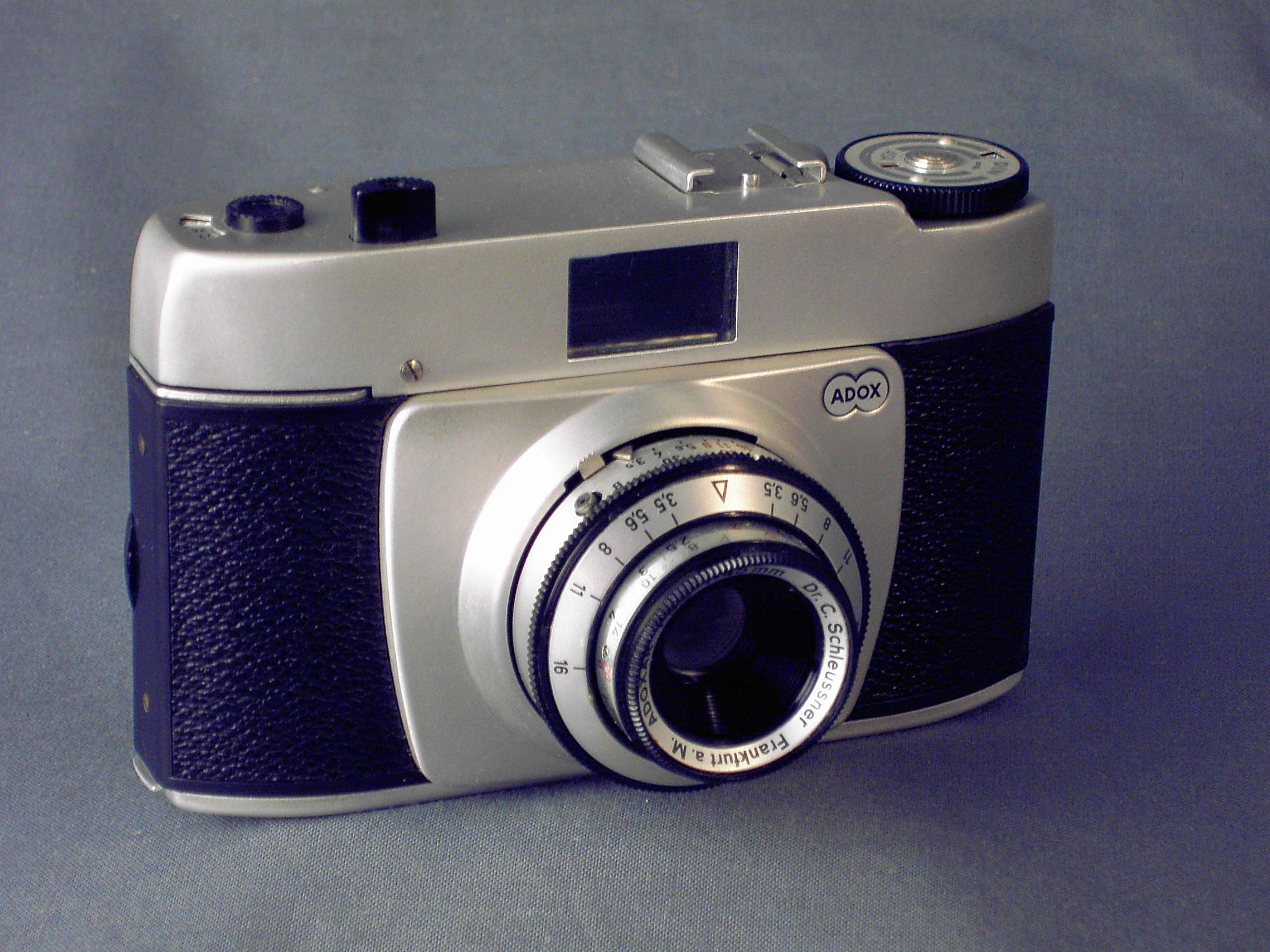 ADOX Polo camera, approx 1960.